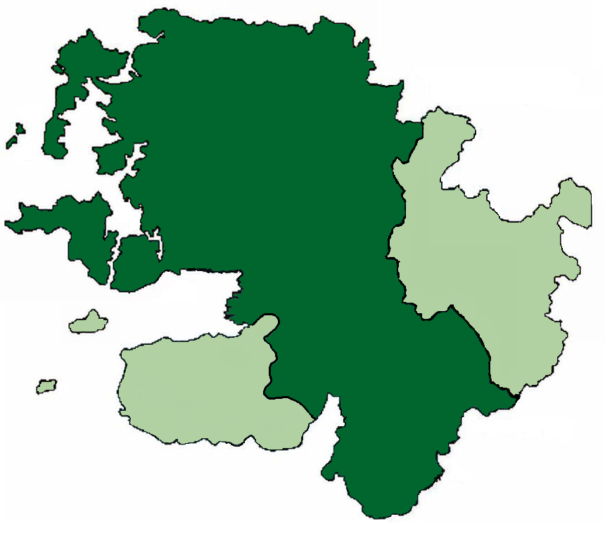 Extend of the MacWilliam Iochtar Territory c. 1590